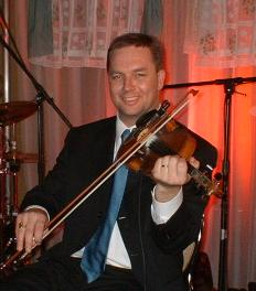 Description: This is a picture I took of Rodney MacDonald during the Nova Scotia PC Leadership Convention in Halifax, Nova Scotia in February, 2006. Author/source: CMRYAN2003 Date: February 2006